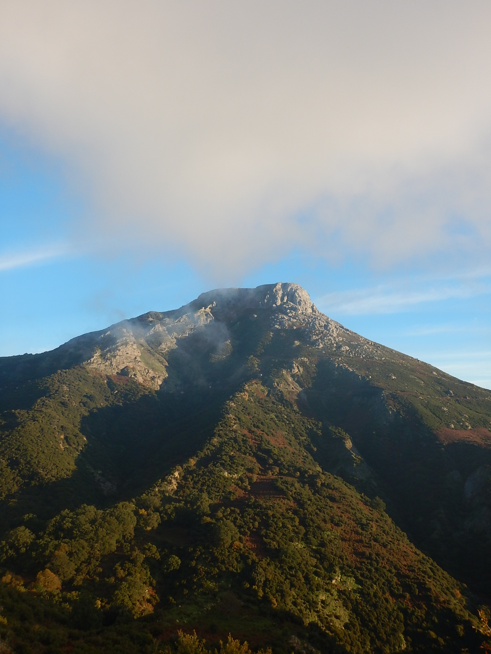 the mount scuderi, peloritani mountains, sicily